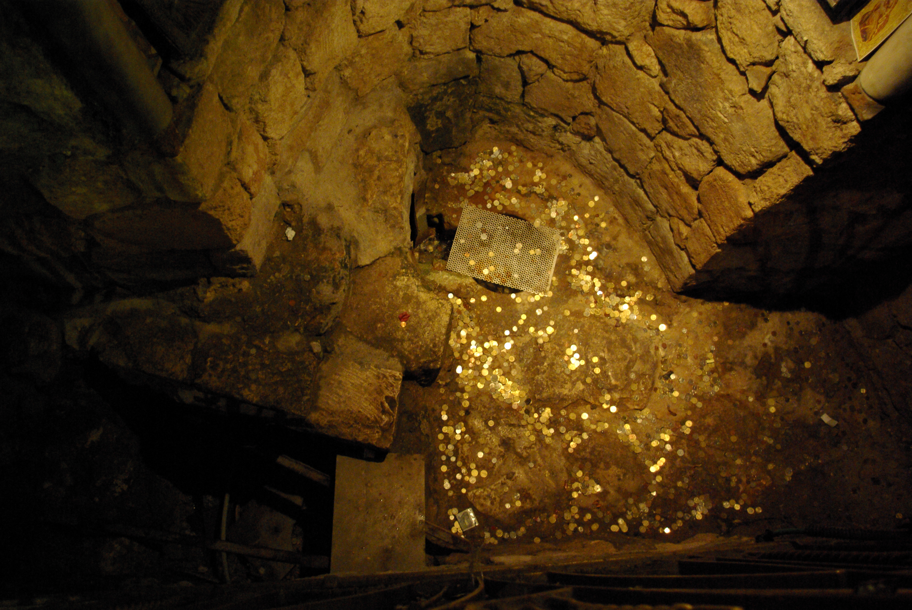 St. Gabriel's Greek Orthodox Church in Nazareth